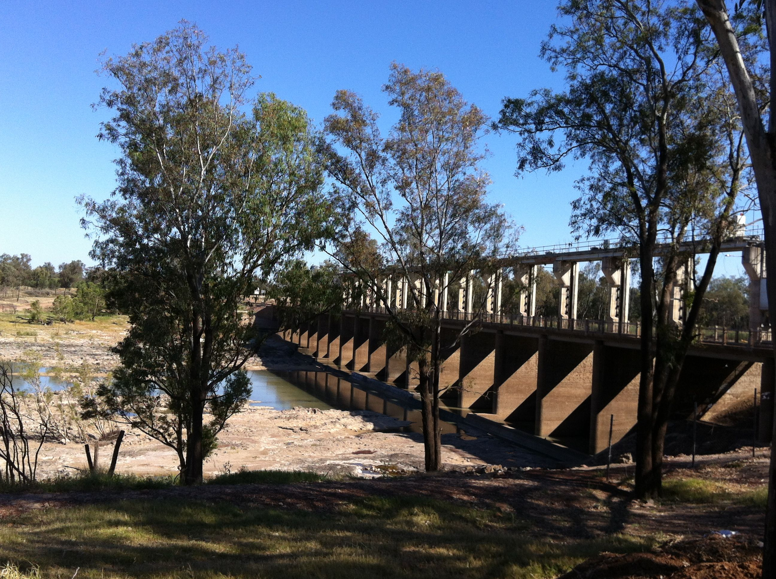 Jack Taylor Weir viewed from downstream side.